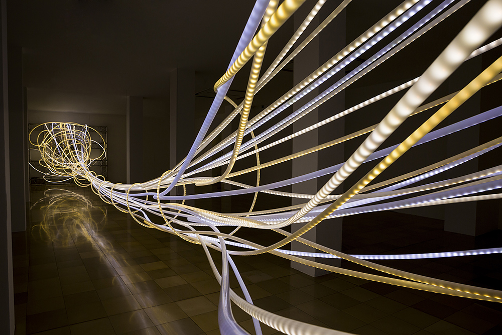 Ludwig Museum Koblenz 2016